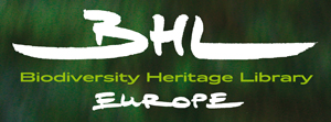 Logo of the BHL-Europe project, 300 x 111 pixels